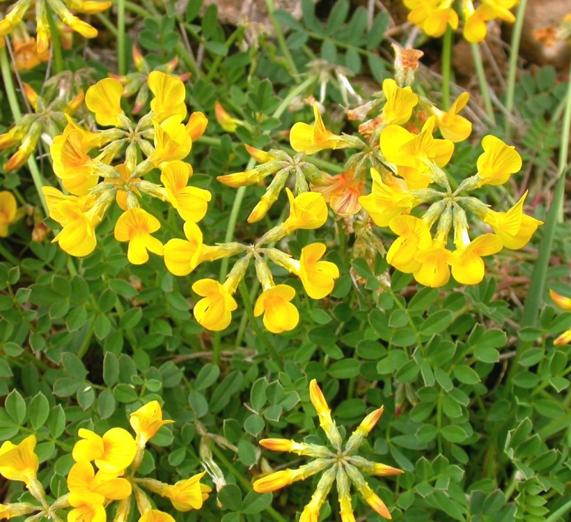 Flowering Hippocrepis comosa in Engadin near Griosch, Alpes, Switzerland